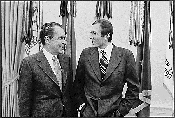 President Nixon meets with Russian poet Evheny Evtushenko.